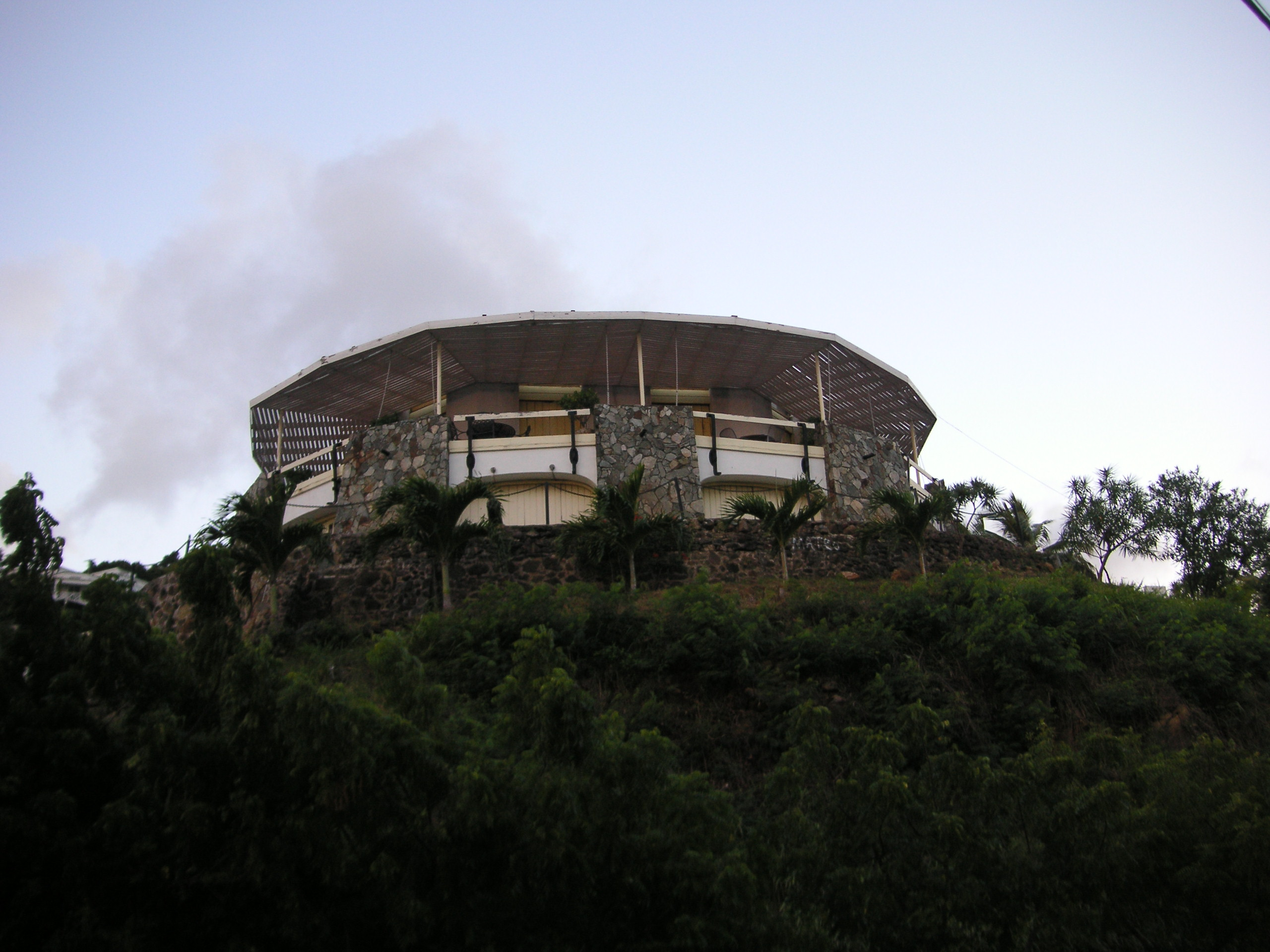 Photograph of Fort Burt, Road Town, Tortola, British Virgin Islands